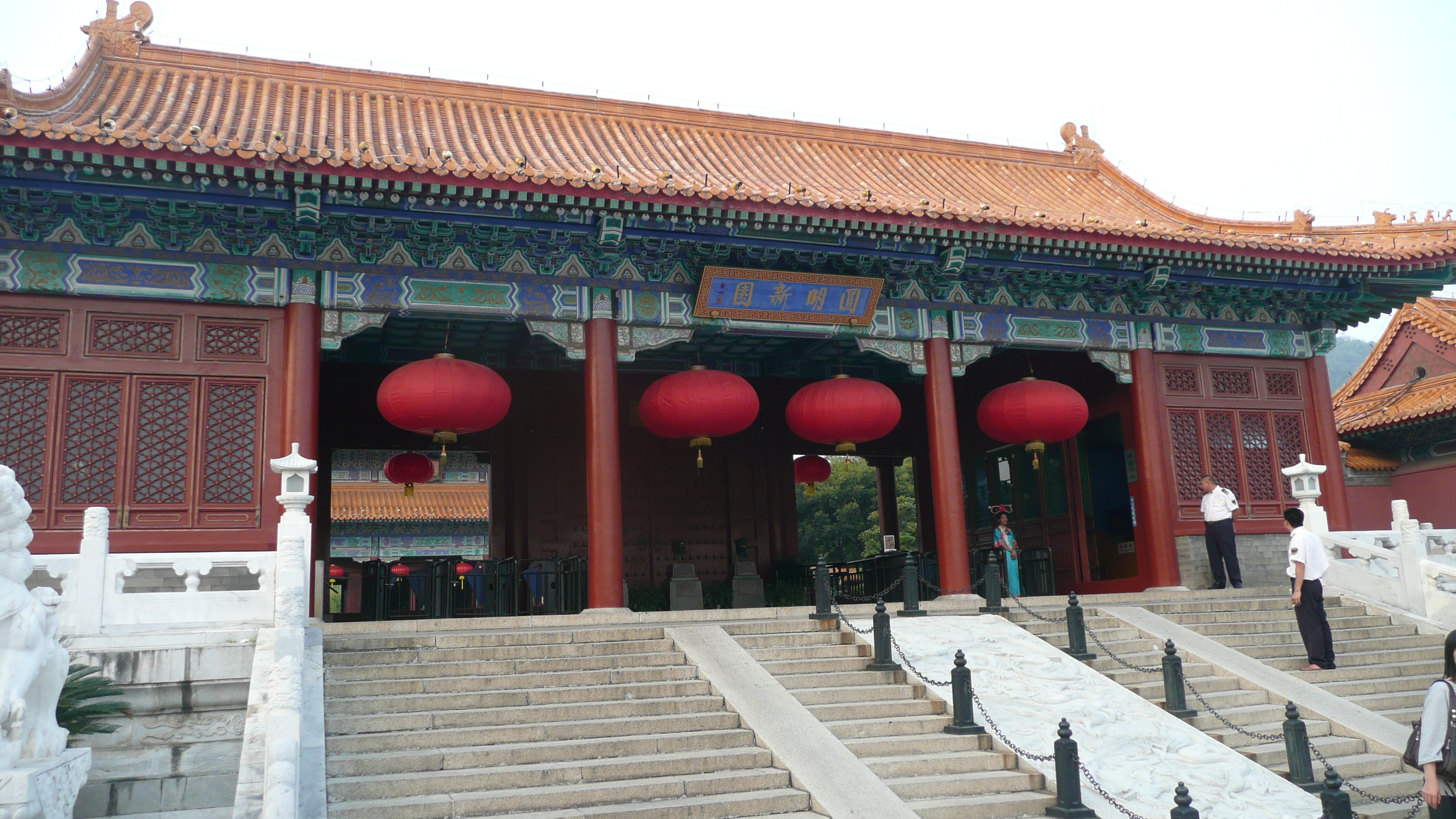 The New Yuan Ming Palace in Zhuhai is a partial reconstruction of the Old Summer Palace in Beijing.